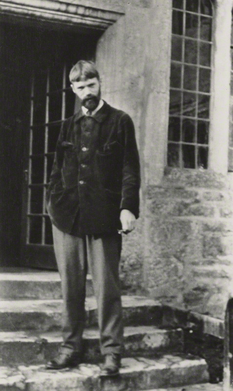 Lady Ottoline Morrell (1873-1938), vintage snapshot print/NPG x140423. D.H. Lawrence, 29 November 1915